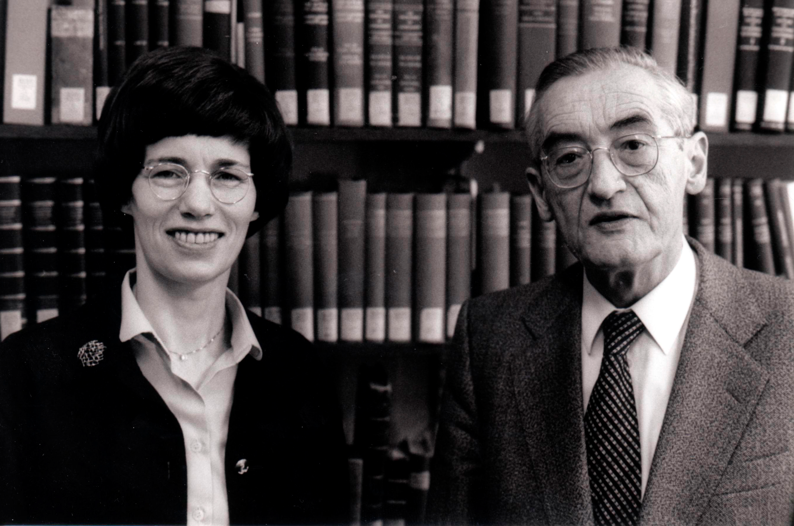 Barbara Aland and Kurt Aland (by Tobias Aland)